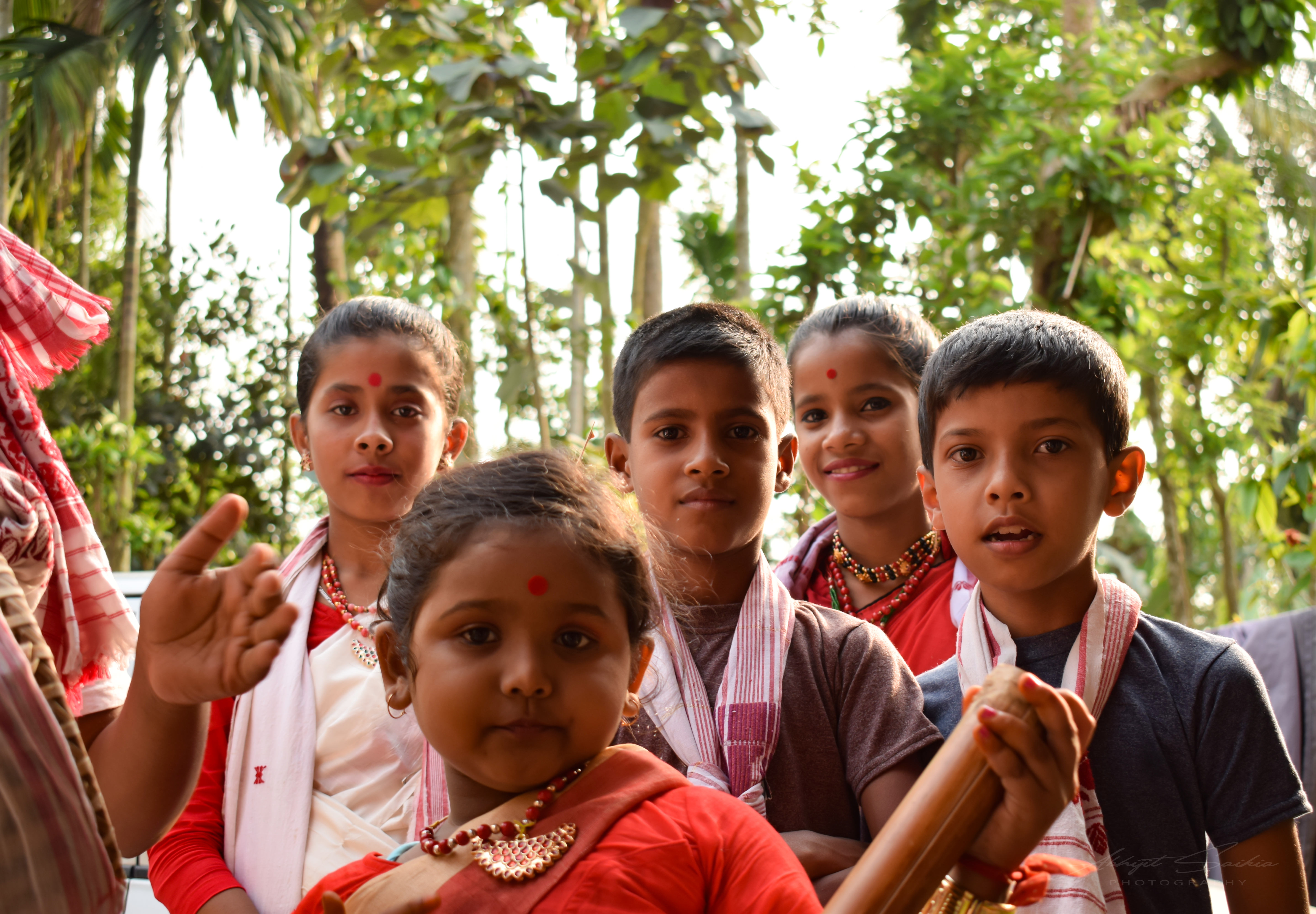 Husori : Village elders move from household to household singing Bihu carols called Husori and bless the household for the coming year. It is merriment time for the Assamese community. Husori is performed in the courtyards of villagers, which may have started during the Ahom rule. Initially, it was performed in the courtyard of Rang Ghar to entertain the king, then moved to the courtyards of officials and, finally, it gained popularity with the villagers as well. During the period when Vaishnavism was dominant, Husori assimilated the flavour of spirituality in its repertoire. This photo has been taken in the country: India